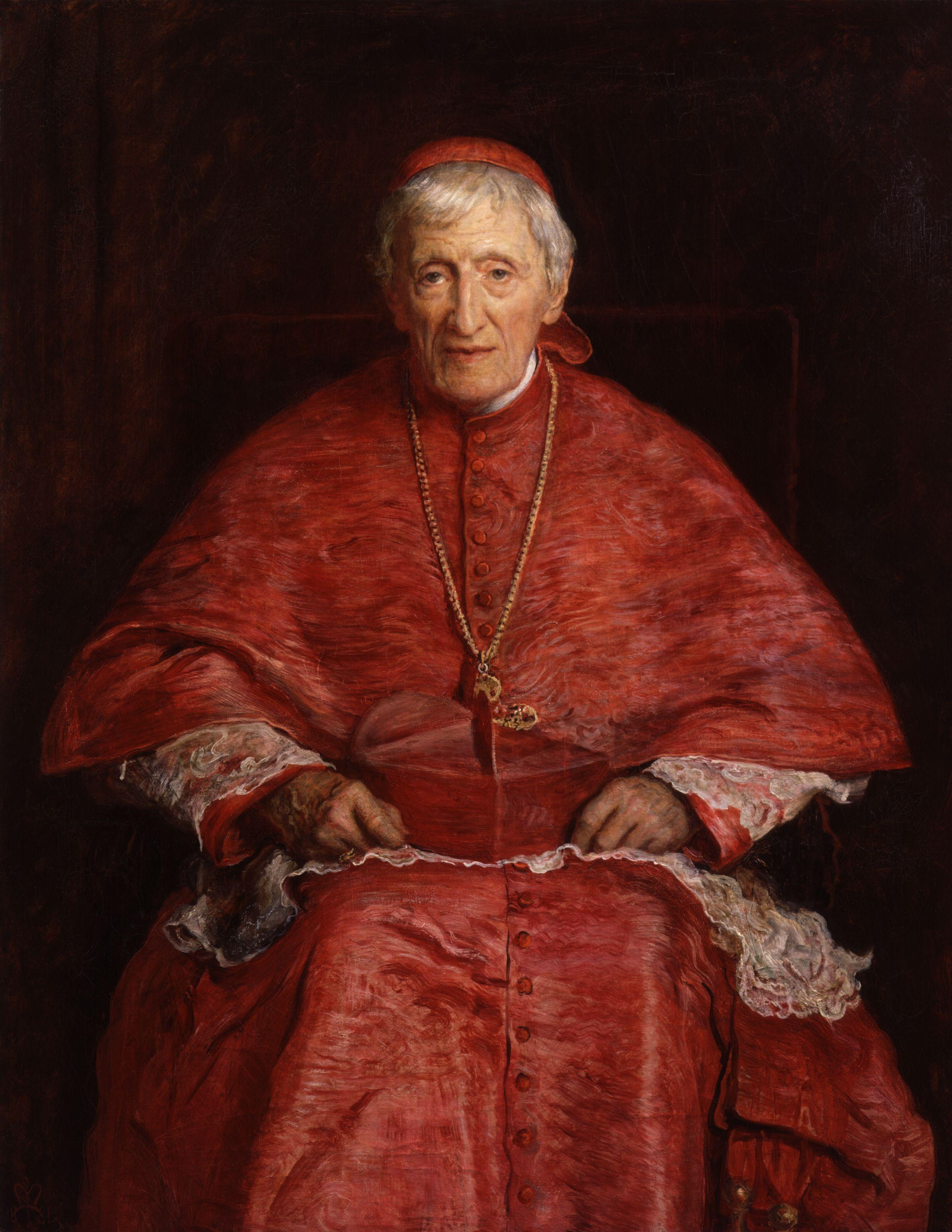 John Henry Newman, by Sir John Everett Millais, 1st Bt (died 1896)